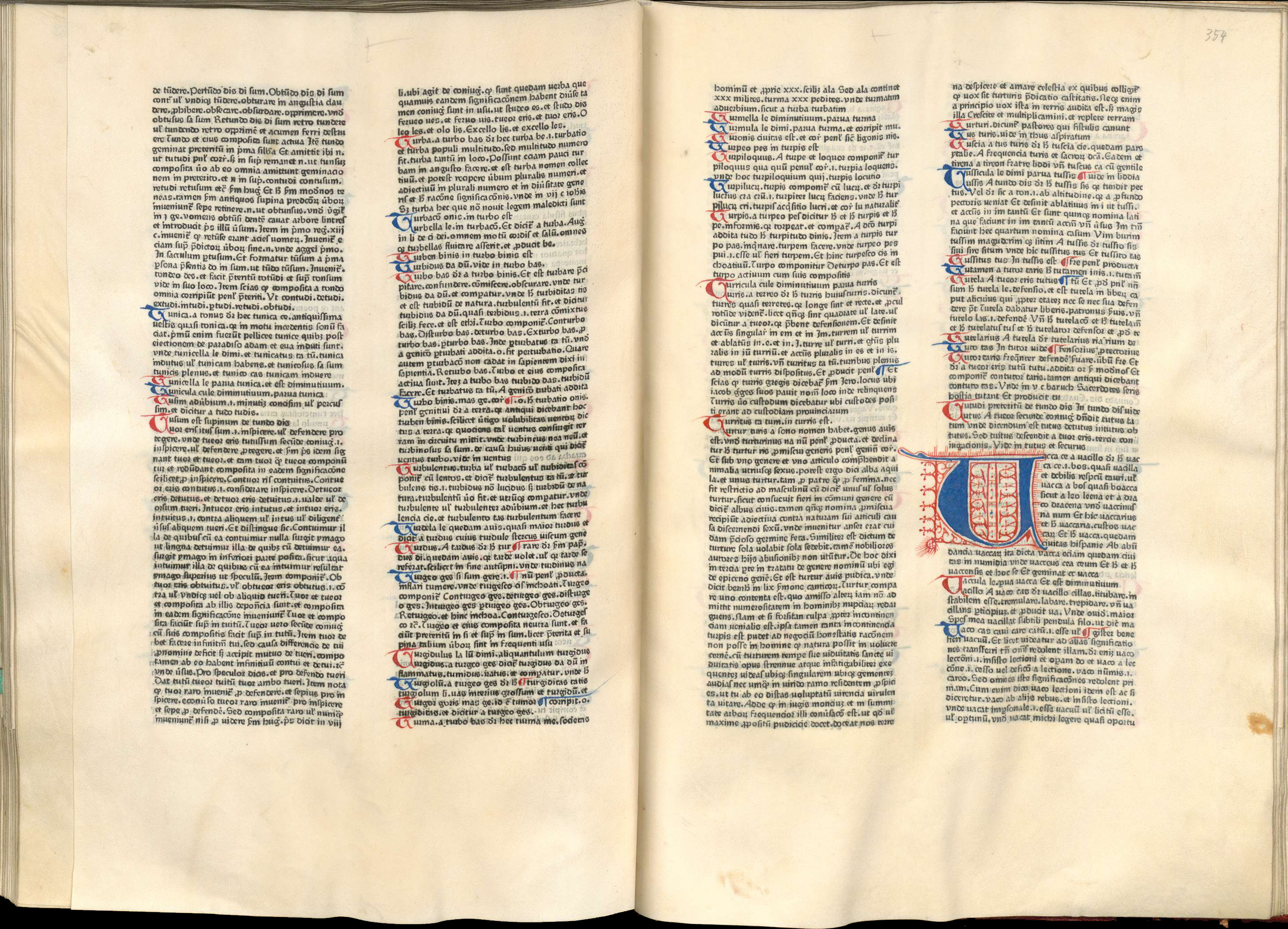 Page-spread from the "Catholicon" by Johannes Balbus printed maybe by Johann Gutenberg about 1460. Copy of the Bayerische Staatsbibliothek.